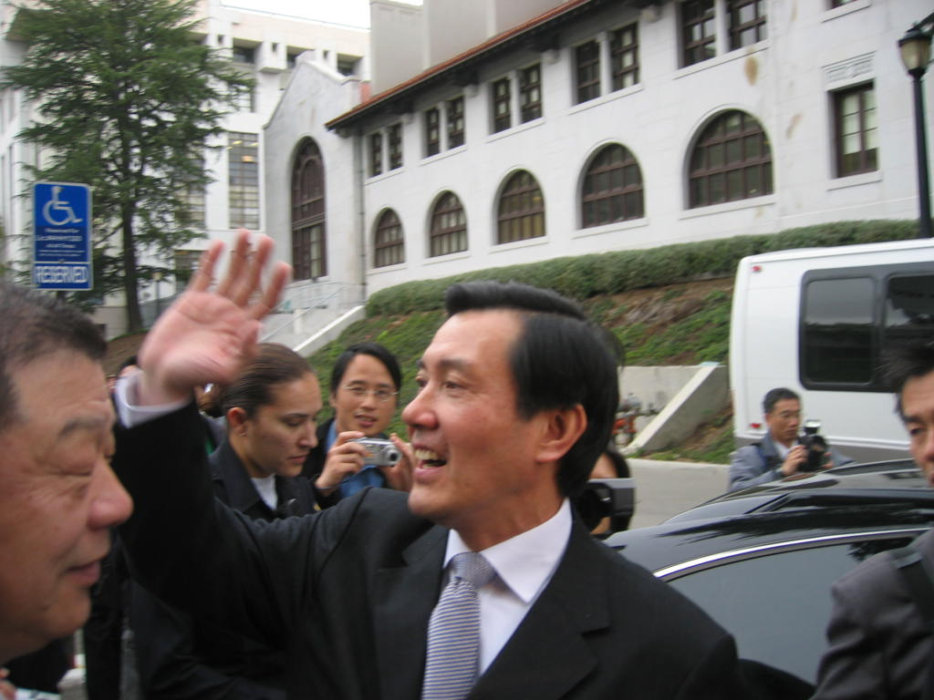 Taken by User:Jiang at UC Berkeley on 2006-03-24.